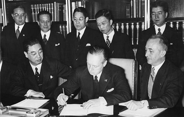 Watched by the Japanese signatory, Ambassador Viscount Kintomo Mushakoji, Hitler's foreign affairs adviser Joachim von Ribbentrop signs the Anti-Comintern Pact, 25 November 1936. Public domain Japan. Imperial War Museum, archive item IWM Photo Archive B542 GSA 290.